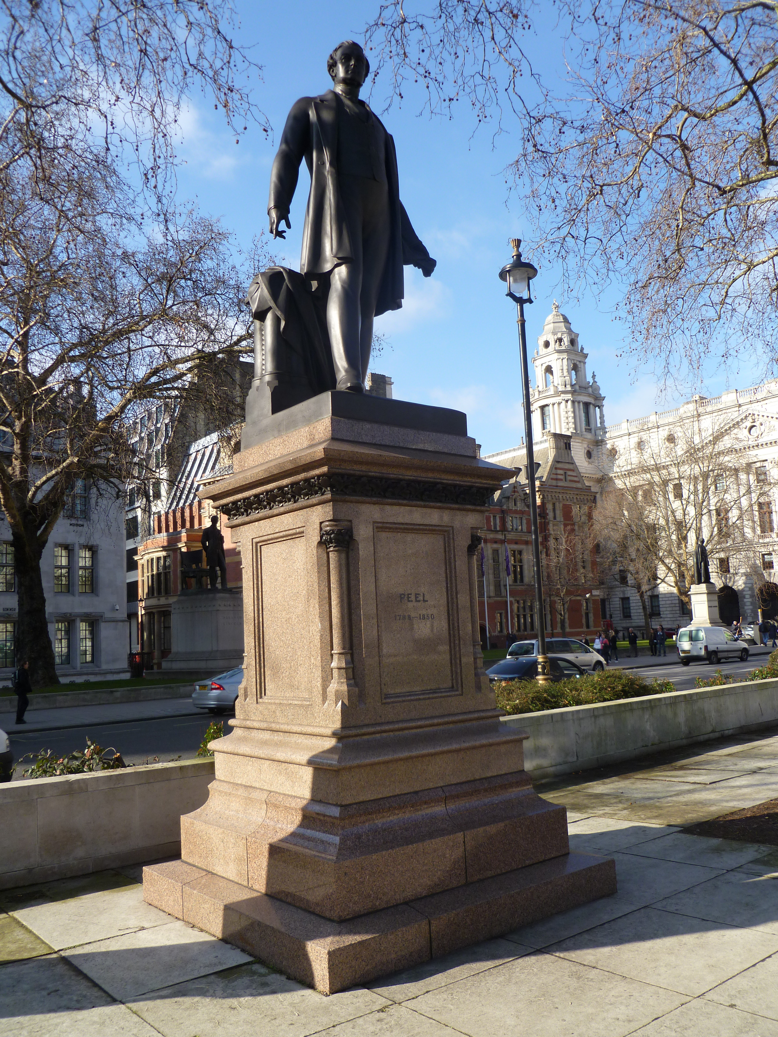 Parliament Square monument to Robert Peel